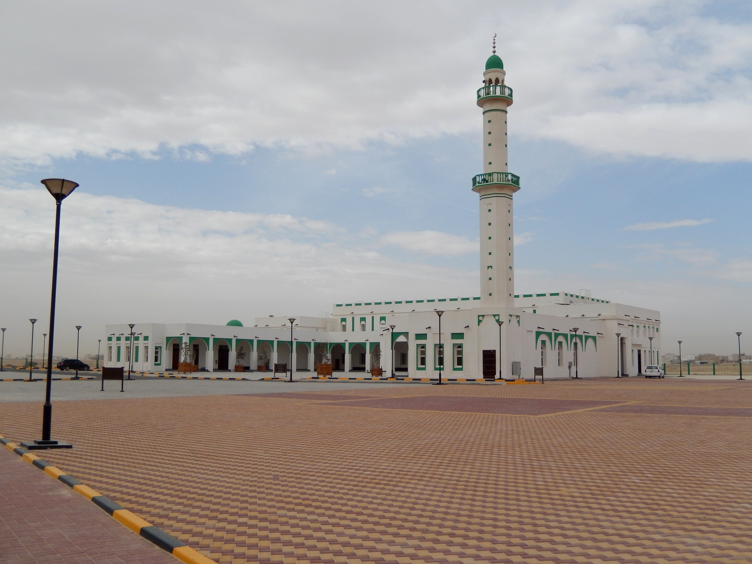 Mosque in Umm Garn (also spelled as Umm Qarn), municipality of Al Daayen, Qatar.